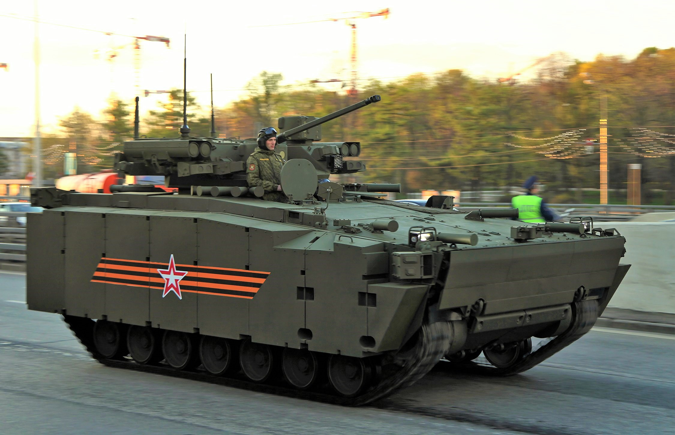 Infantry fighting vehicle object 695 Kurganets-25